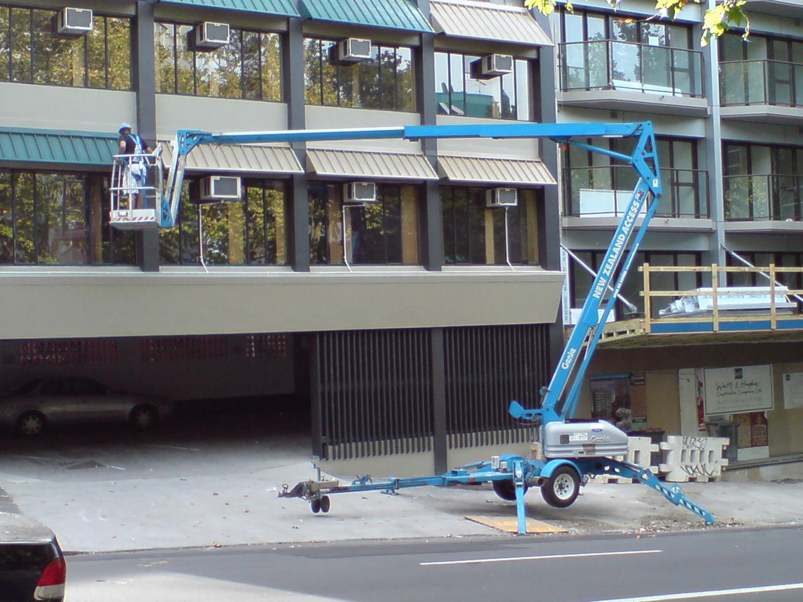 Wheeled aerial work platform (of the 'cherry picker' type) set up at a construction site in downtown Auckland City, New Zealand.